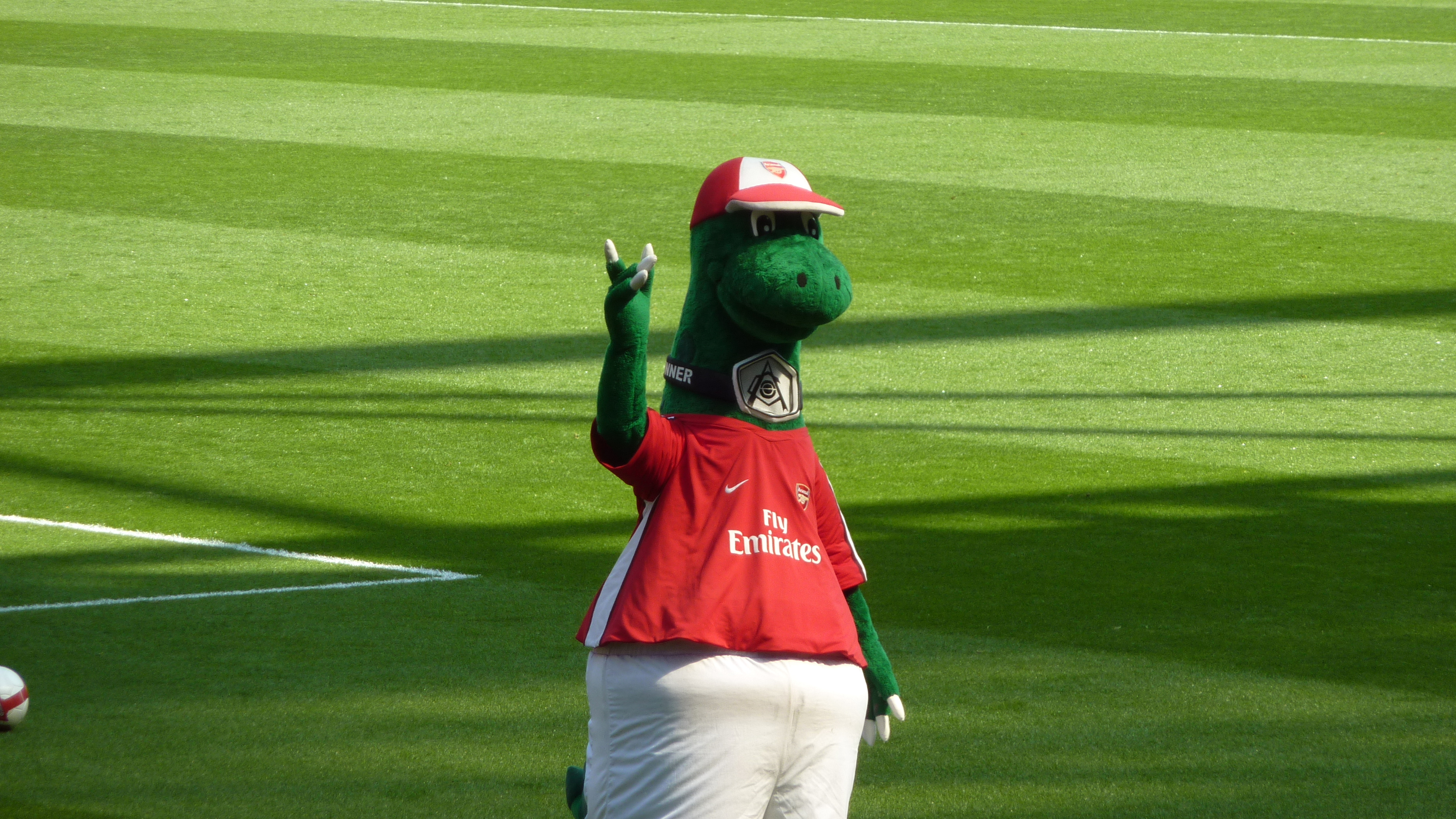 Image of Arsenal FC mascot